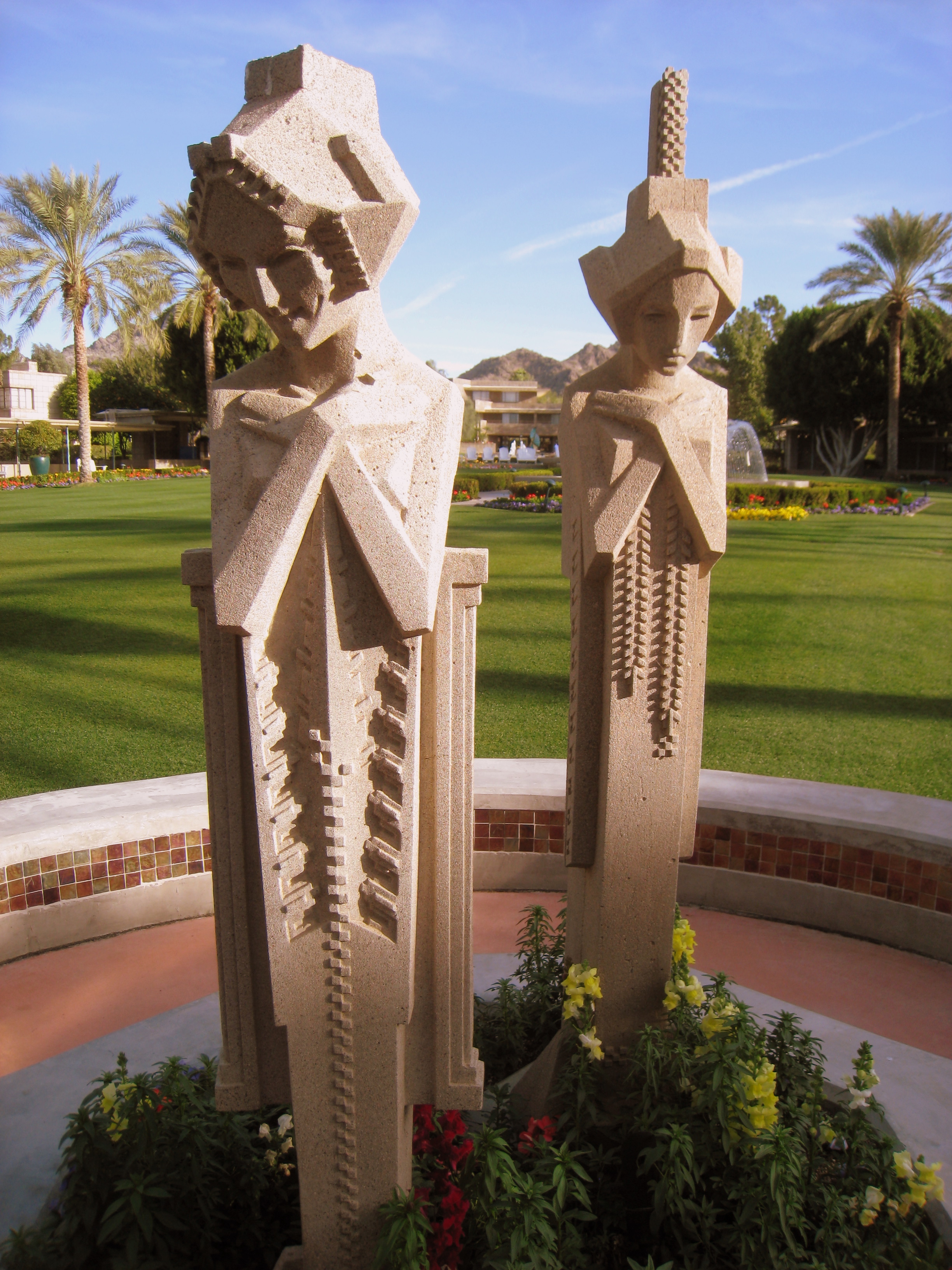 Sprites - Arizona Biltmore Hotel, Phoenix, Arizona, USA. Architect Albert Chase McArthur (1881–1951), with consulting work by Frank Lloyd Wright (1867–1959). These sprites were designed by sculptor Alfonso Iannelli. They were first installed in 1914 at Midway Gardens in Chicago, and consequently now in the public domain.